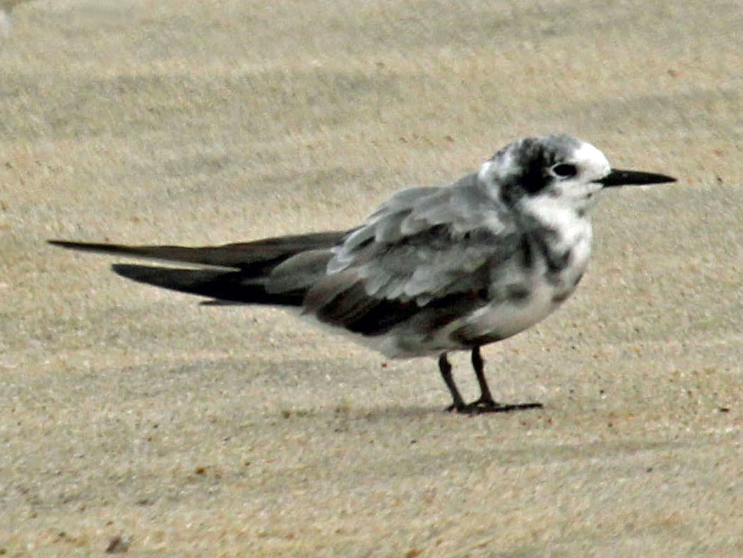 Black Tern (Chlidonias niger) transitioning from breeding to nonbreeding plumage - Nantucket, Massachusetts.